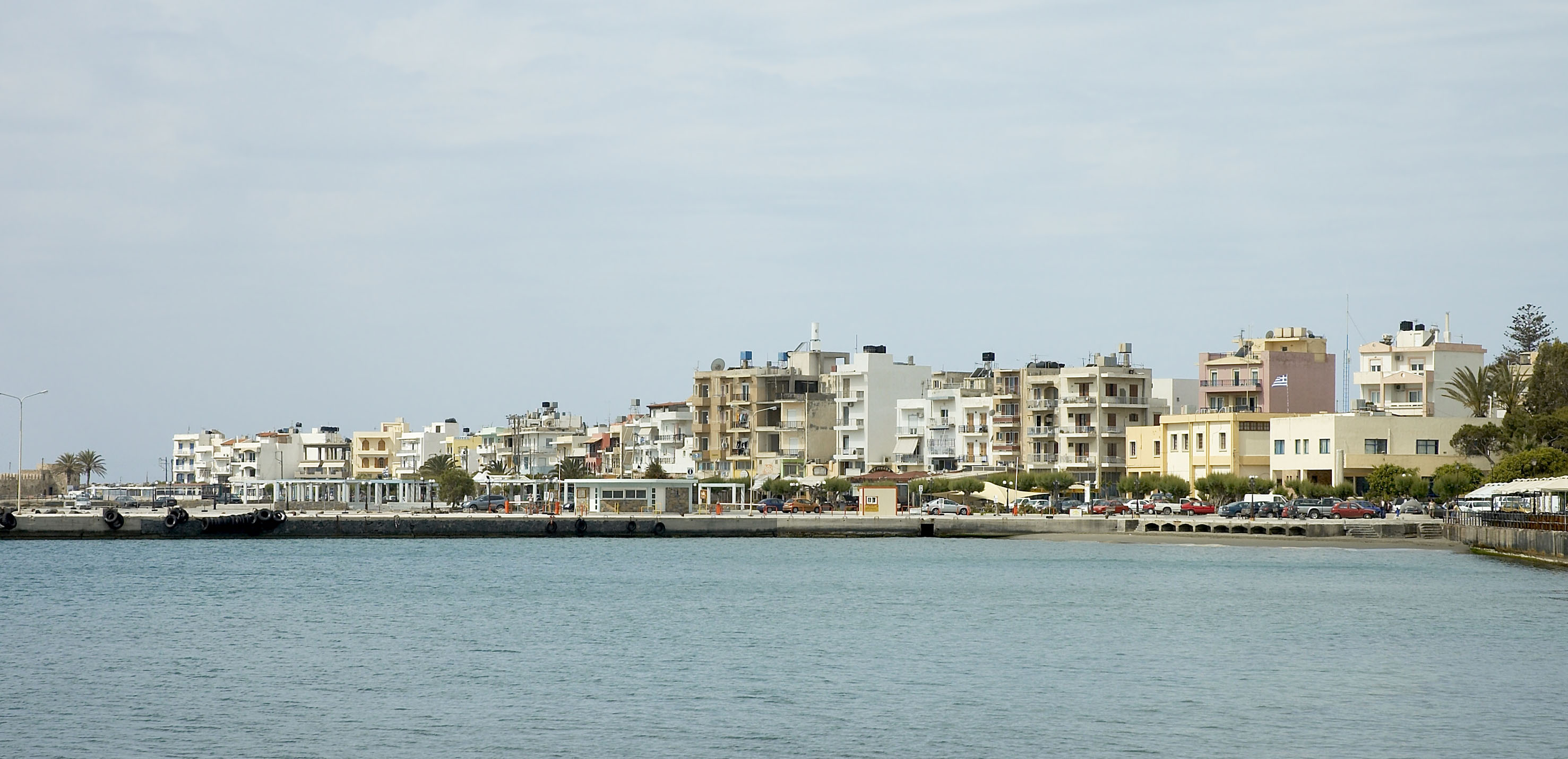 Ierapetra